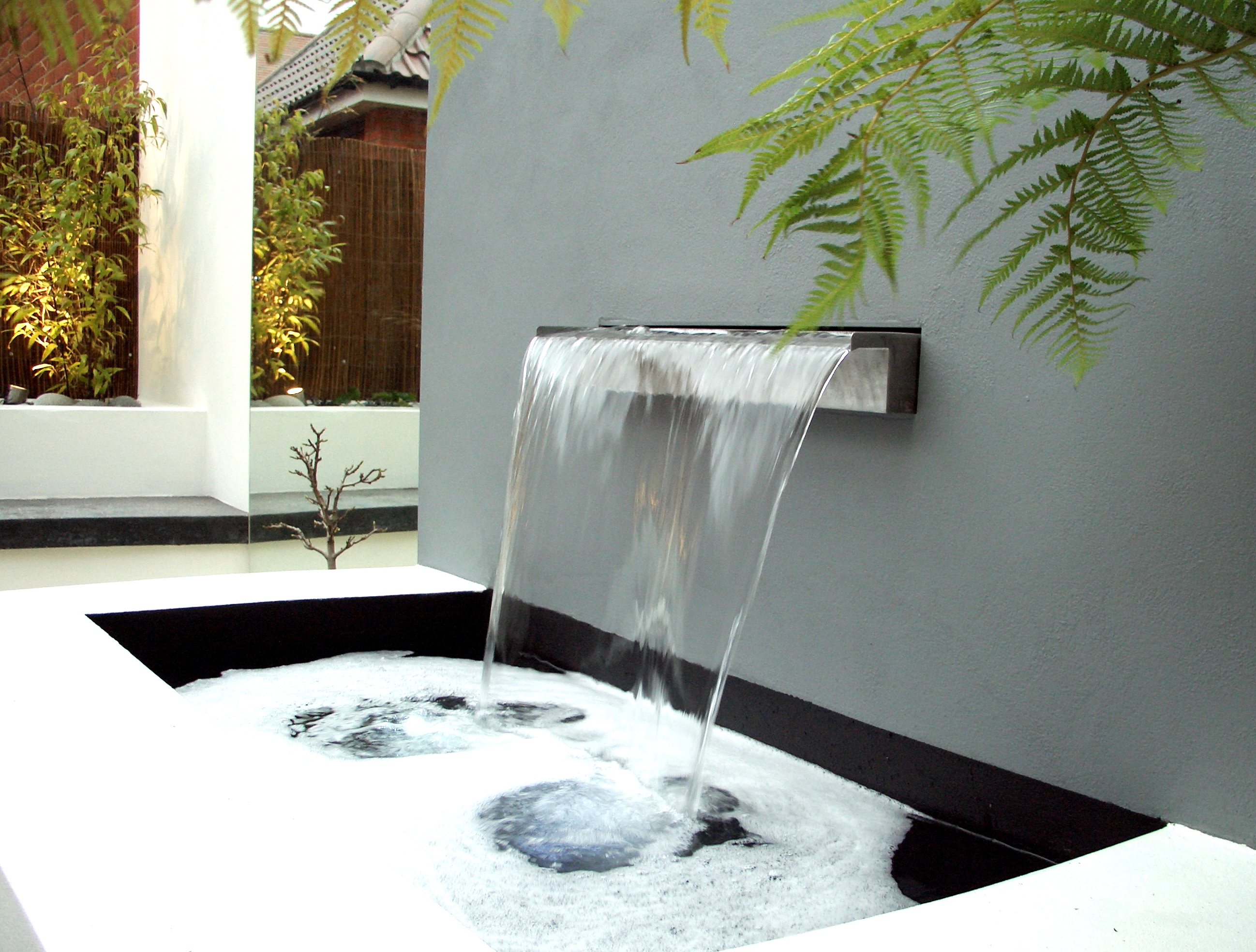 Contemporary garden in Colchester, UK. For more